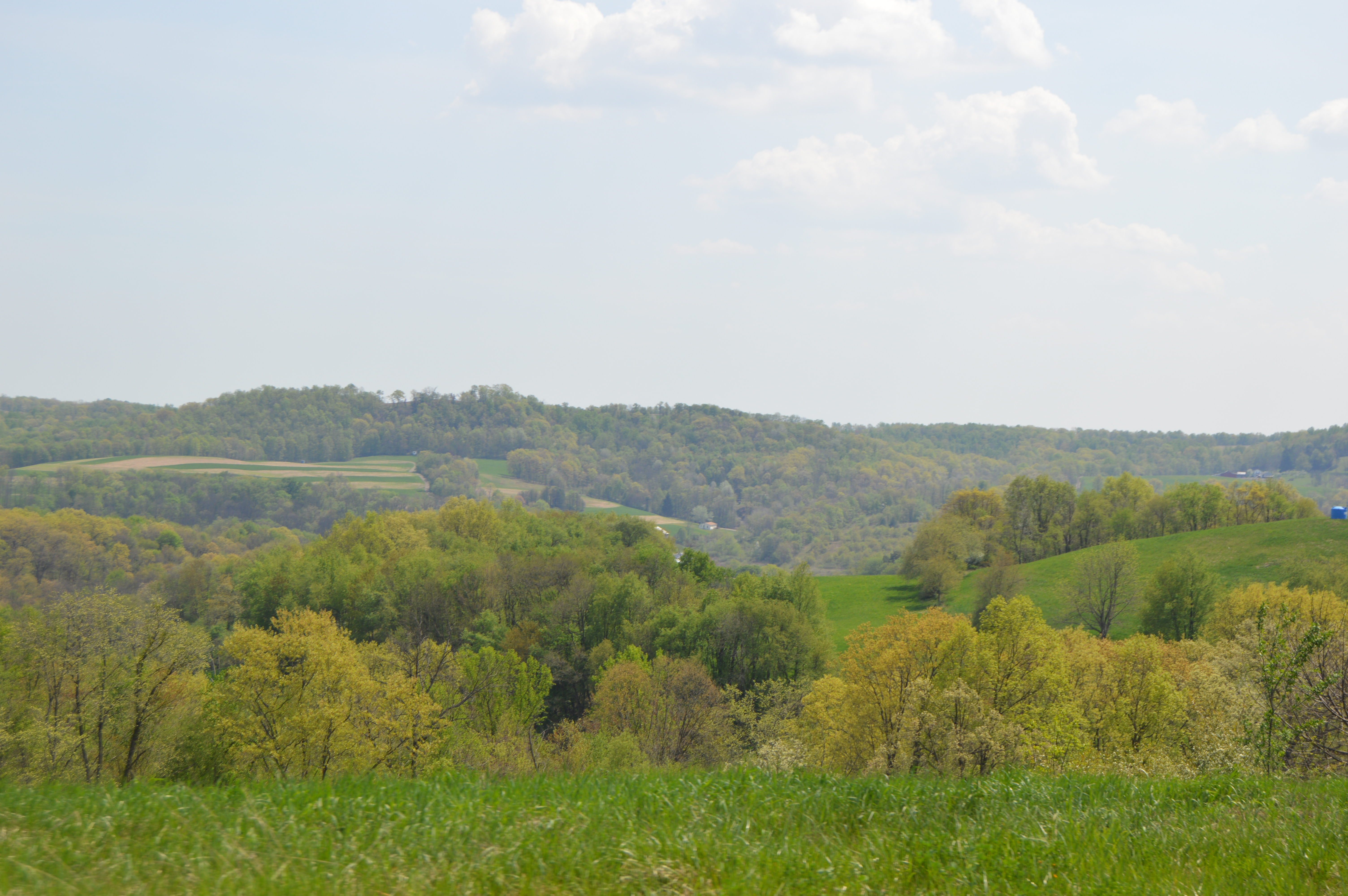 Looking east from Pennsylvania Route 839 across hills southwest of Smicksburg in Cowanshannock Township, Armstrong County, Pennsylvania, United States.